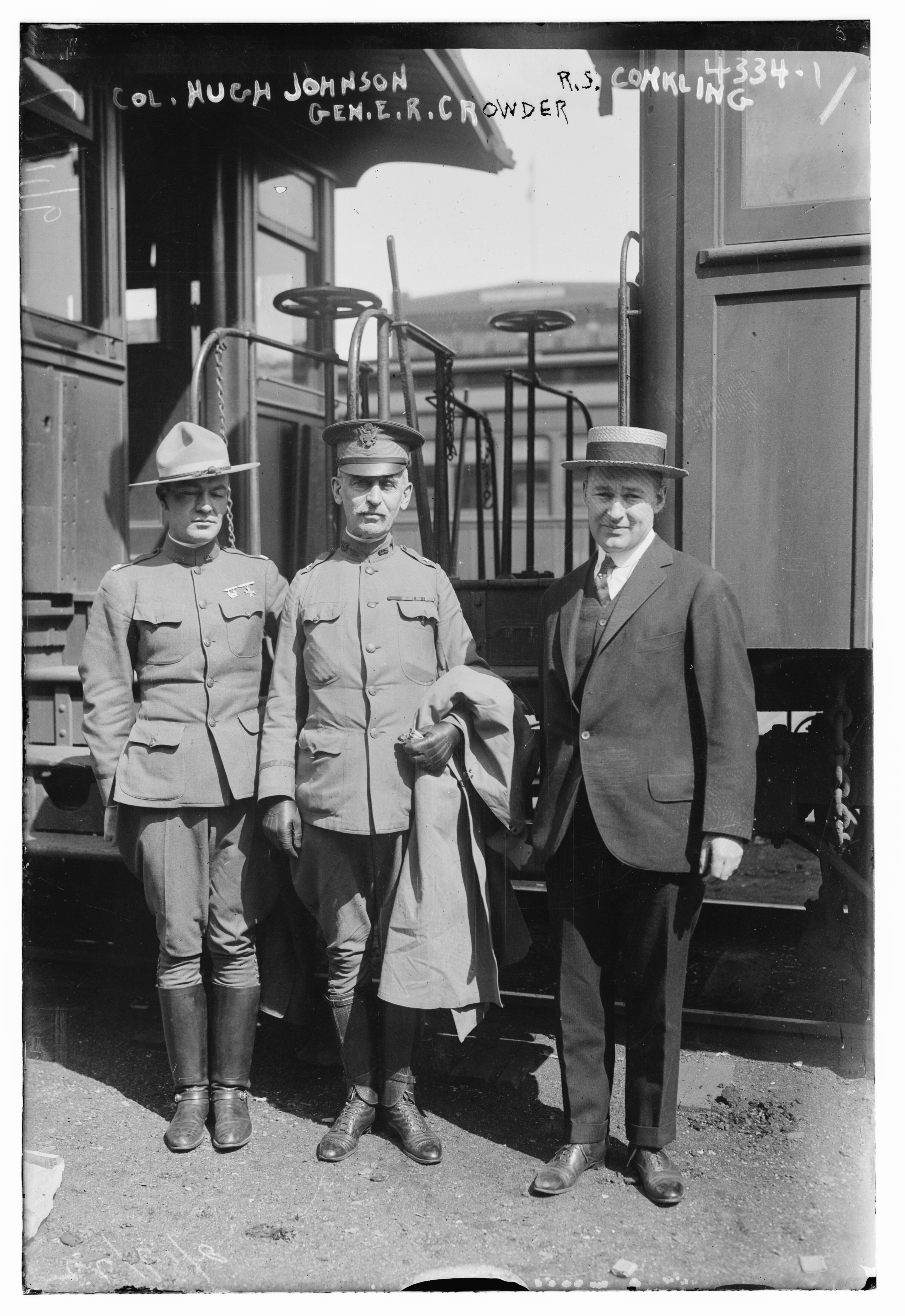 Colonel Hugh Johnson, General Enoch Herbert Crowder, Roscoe S. Conkling at Camp Upton in 1917